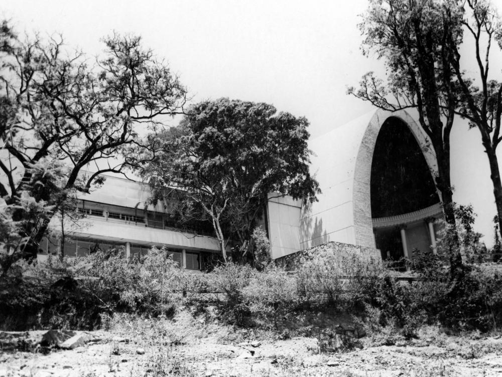 Side view of the building known as Cloudland at Bowen Hills, Brisbane, Queensland, 1946 Side view of Cloudland, a ballroom in the north Brisbane suburb of Bowen Hills. It was constructed in 1939-1940 as 'Luna Park' and opened on 2 August, 1940. In 1942 United States forces took it over as an office and headquarters. It was reopened as a ballroom again on 26 April, 1947. The building was demolished in 1982.